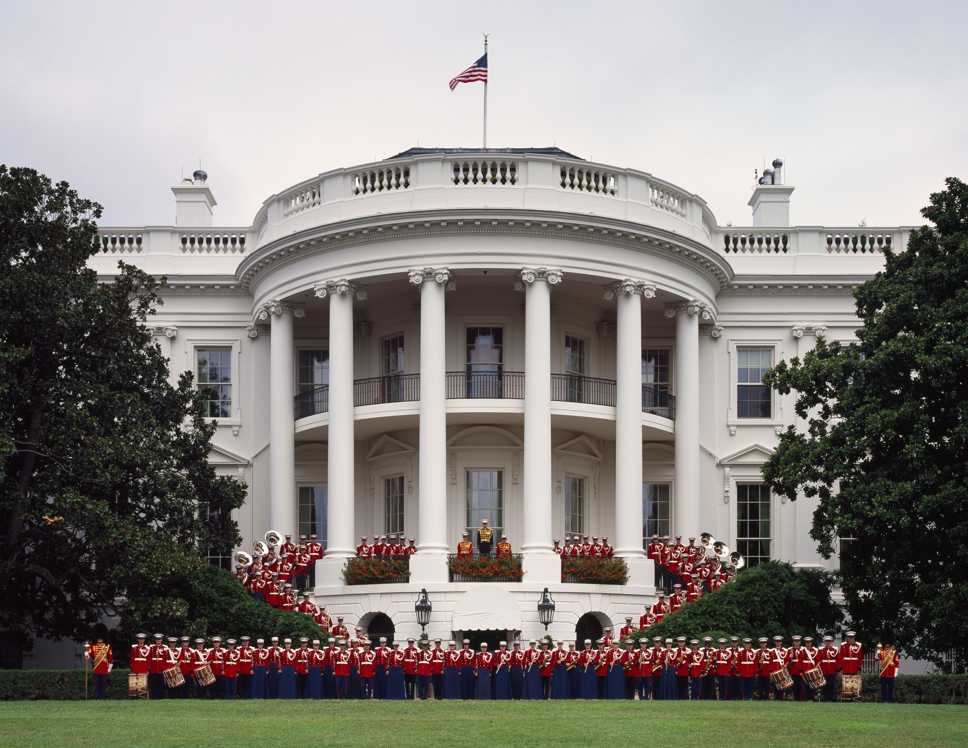 “The President’s Own” United States Marine Band, pictured here on the South Portico of the White House, is the oldest performing musical organization in the United States. It was established in 1798, and performs at the White House more than 300 times annually.